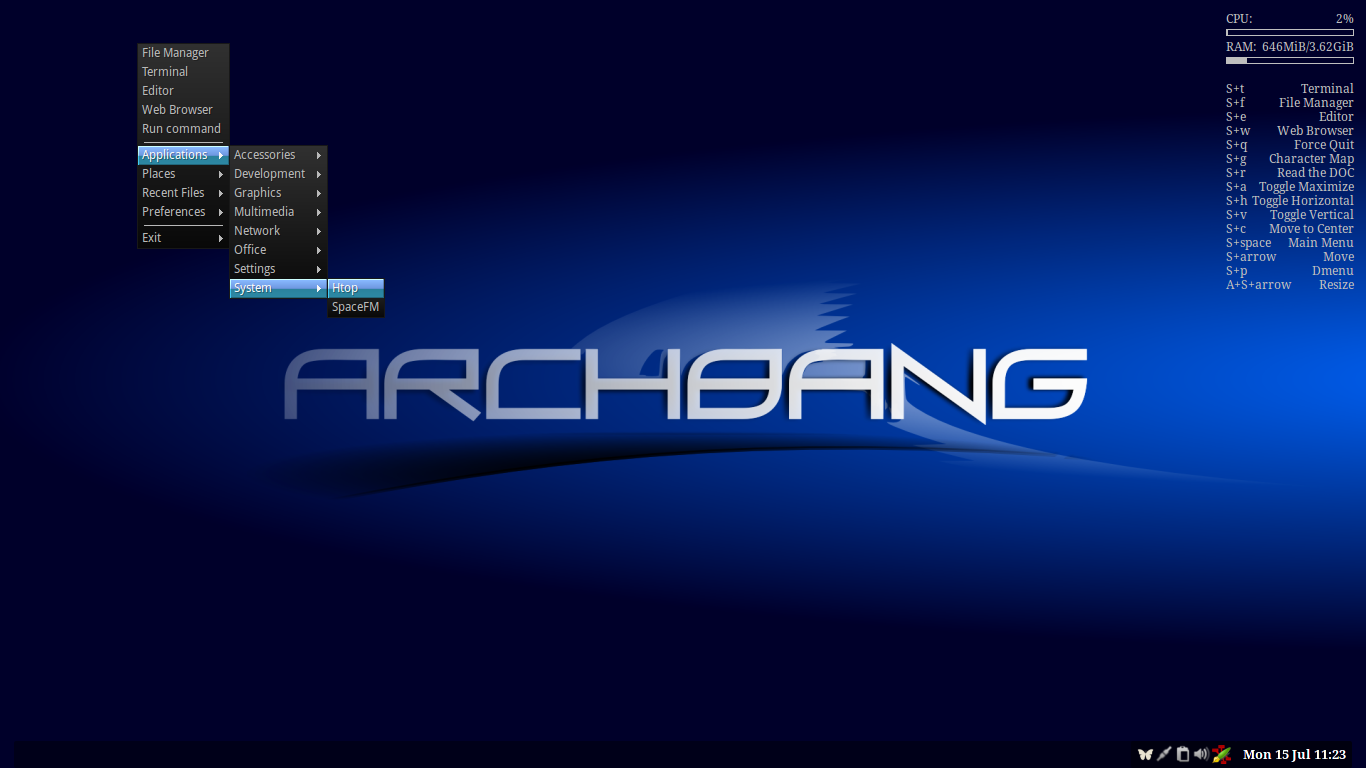 ArchBang Linux 2013.07.07-x86_64